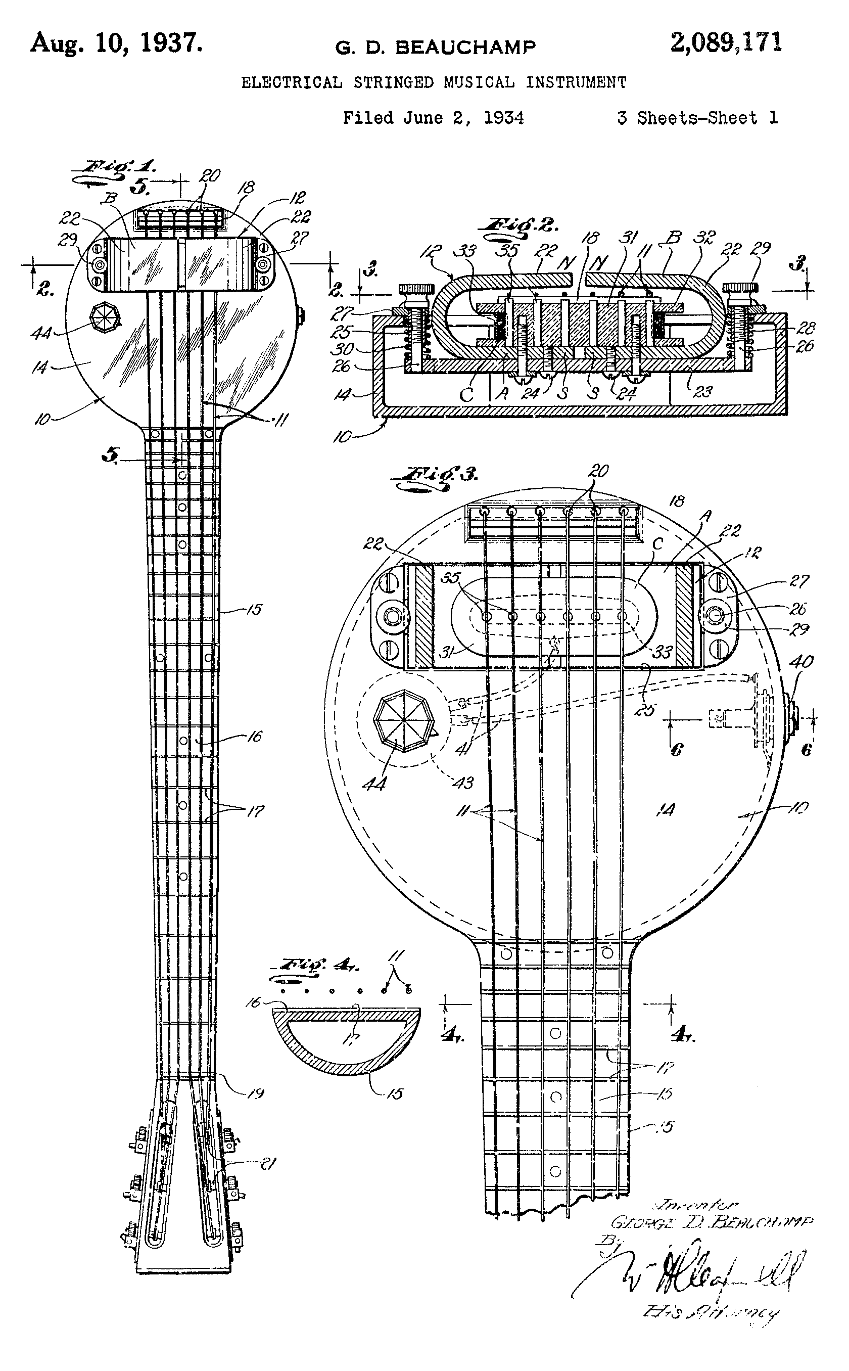 Diagrams of Rickenbacker lap steel guitar design from 1934 patent application.